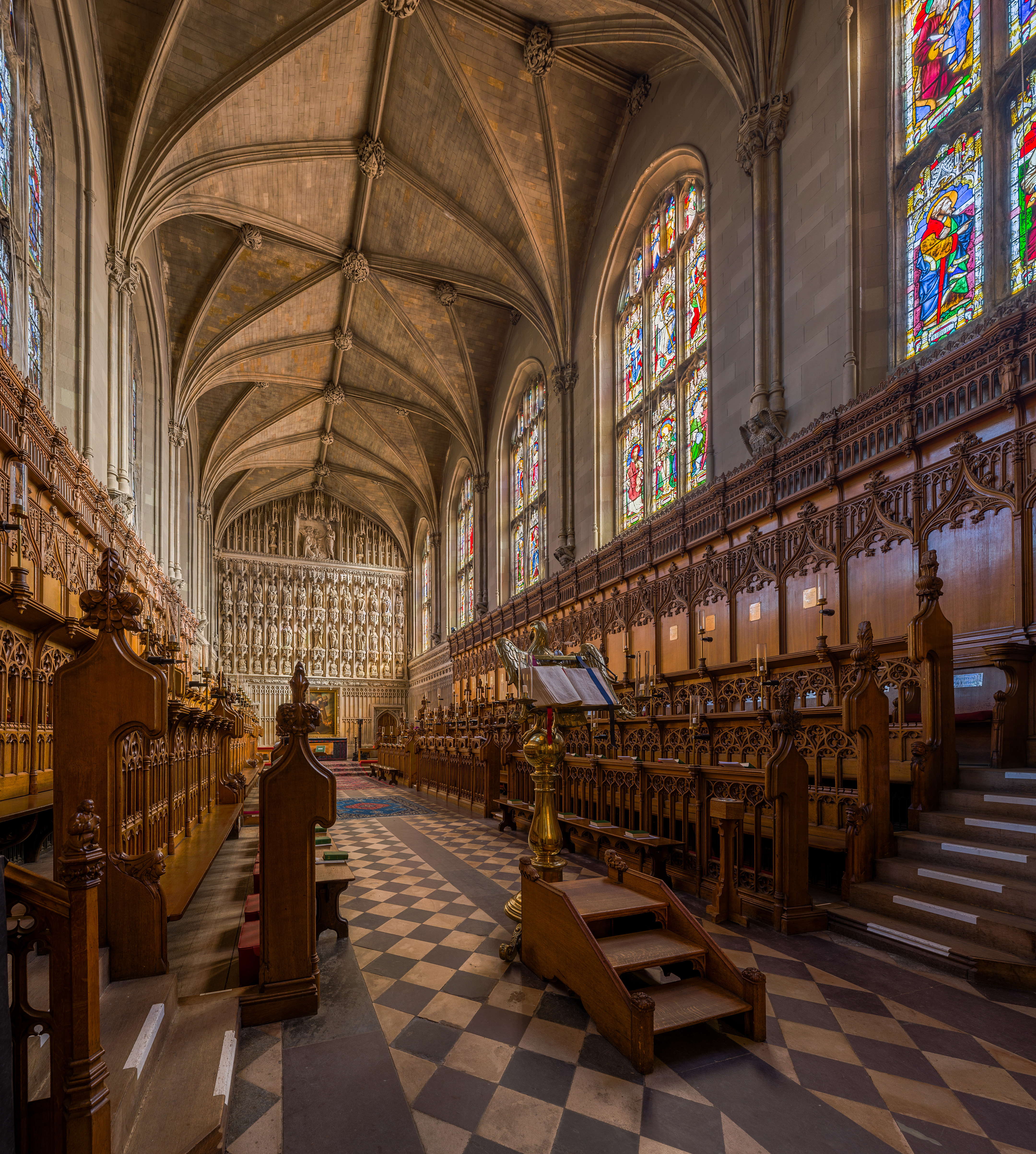 The interior of the chapel of Magdalen College, Oxford, England.